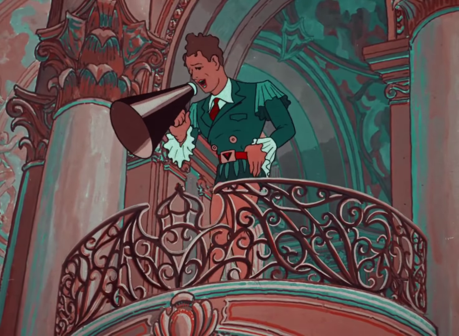 Caricature of crooner Rudy Vallee at 7:18 in the Betty Boop cartoon Poor Cinderella from 1934 (The entire cameo runs from 7:10-7:24 in the film)